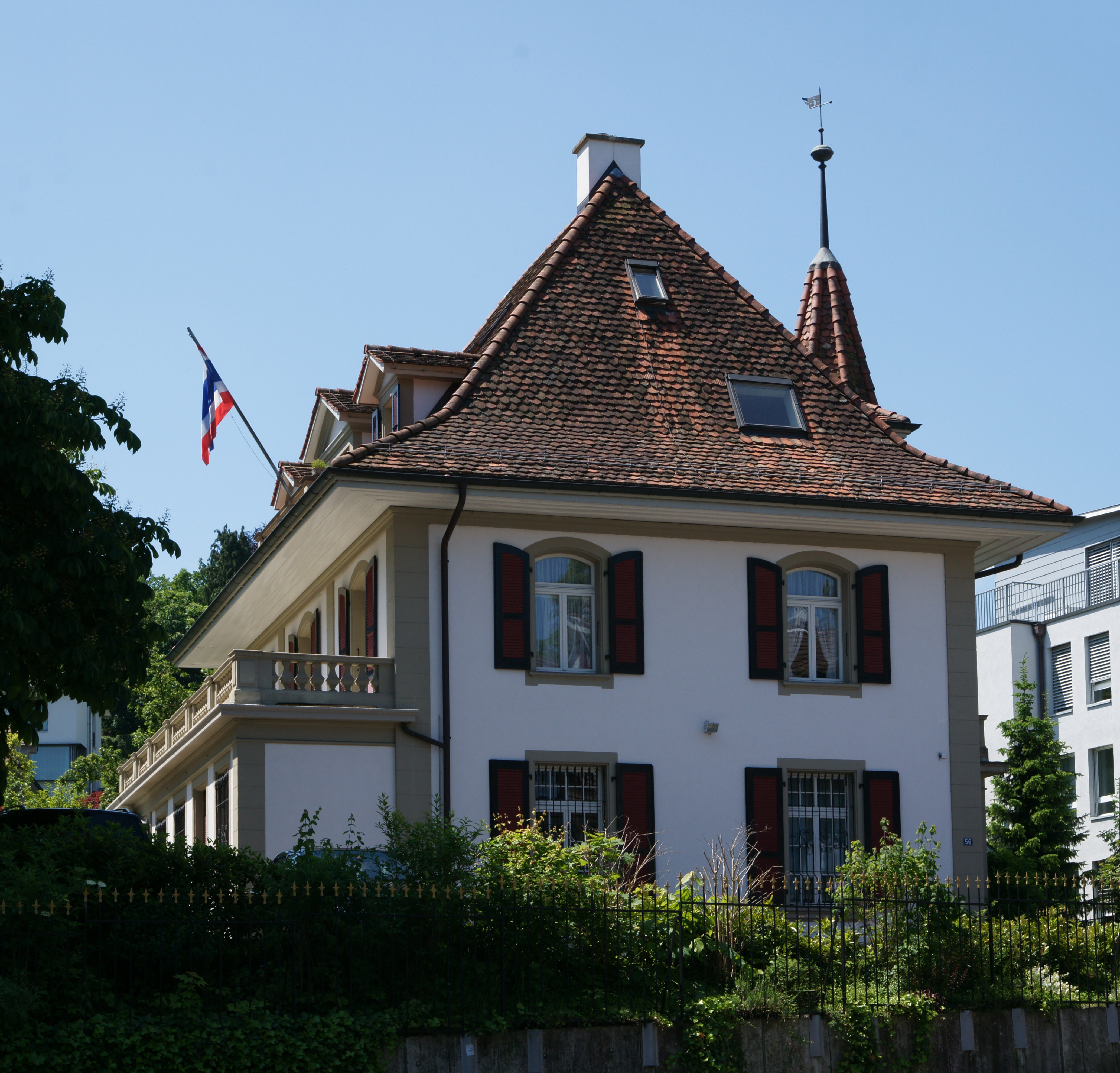 Embassy of Thailand on Kirchstrasse 56, Bern, Switzerland.